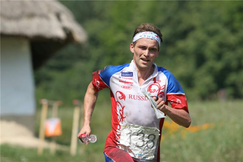 World Orienteering Championships 2007 in Kiev, Ukraine. On photo Russian Andrey Khramov.